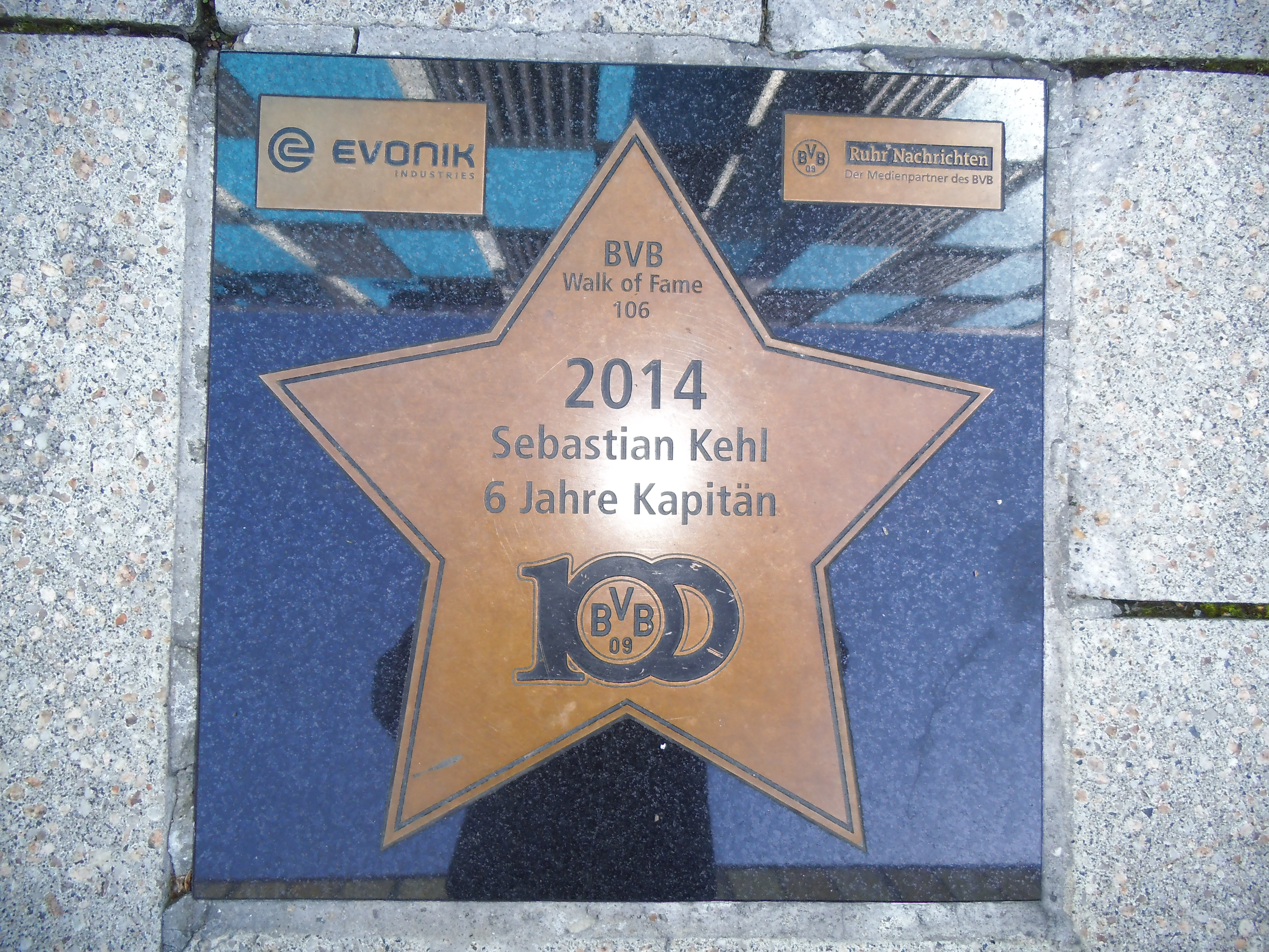 Number 106 of the Walk of Fame of Borussia Dortmund. This one is commemorating Sebastian Kehl.